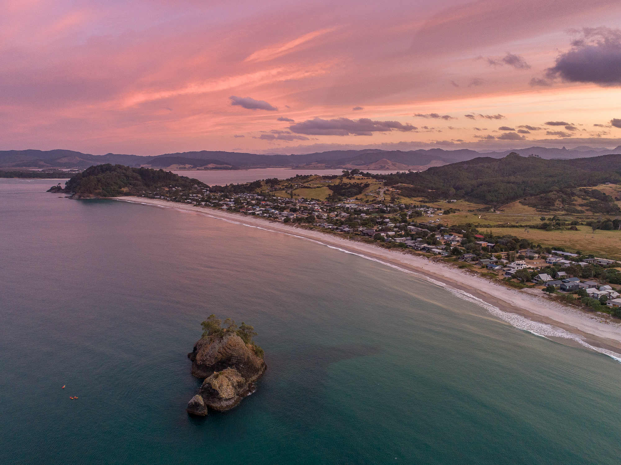 Aerial drone shot photograph of Whangapoua beach